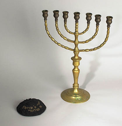 Yarmulke and Menorah from the Harry S. Truman collection. Skullcap: Jewish yarmulke or kippah with Hebrew lettering. Polyester, metallic thread. Length 17.0, Width 16.1, T 1.0 cm. Harry S Truman National Historic Site, HSTR 20077a Menorah: Jewish menorah or candelabrum with seven branches. President Truman was the first world leader to recognize Israel as a new nation. Metal. H 43.6, W 32.1, D 13.3 cm. Harry S Truman National Historic Site, HSTR 7337